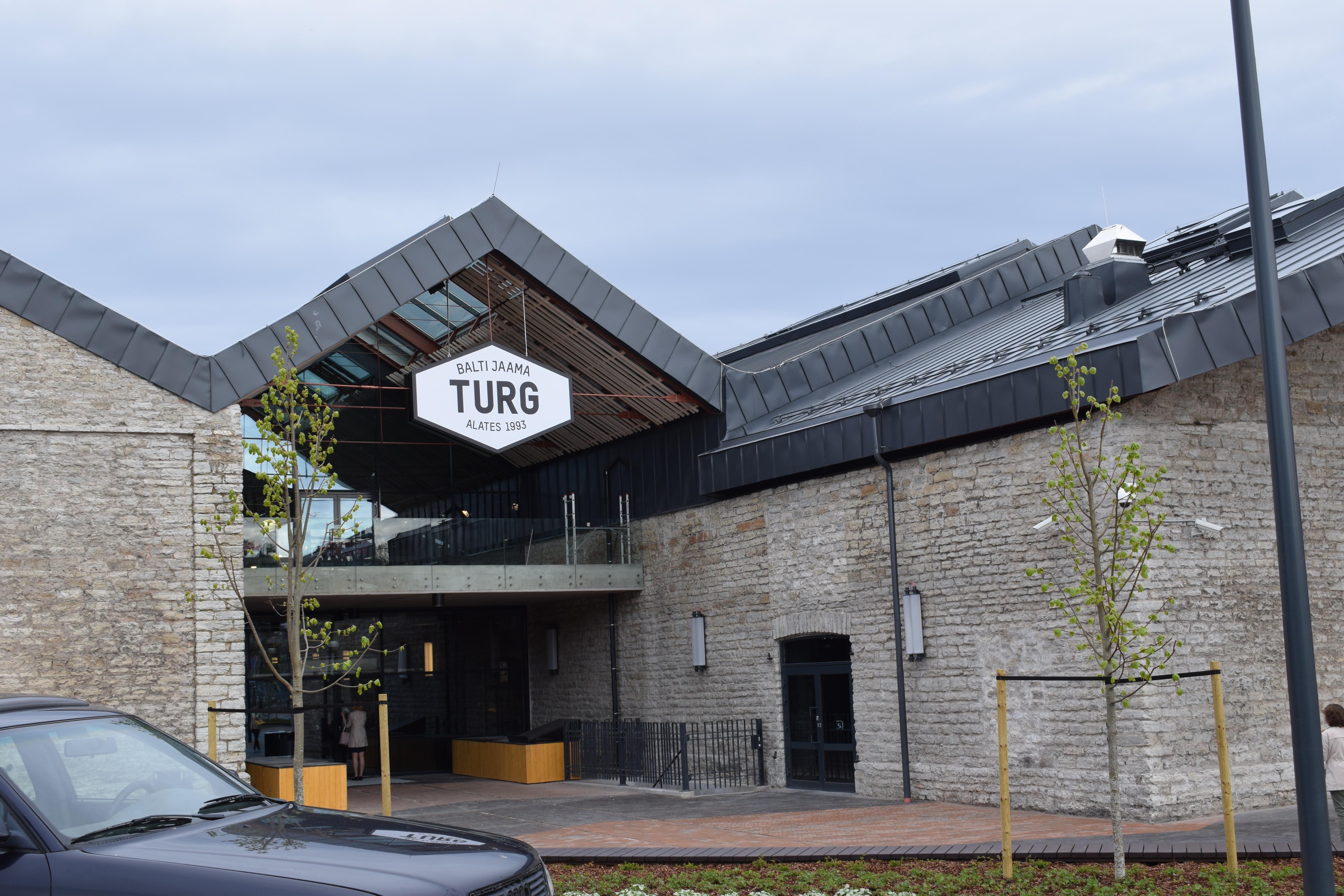 Tallinn railway station market